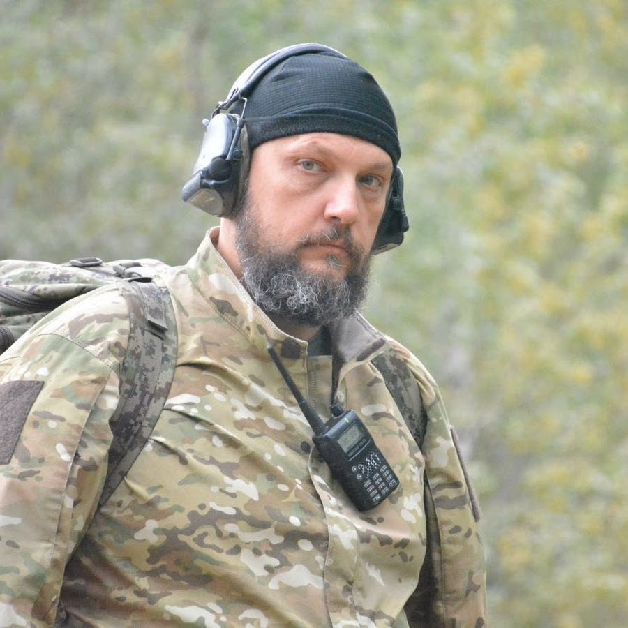 Artyom Katulin military doctor